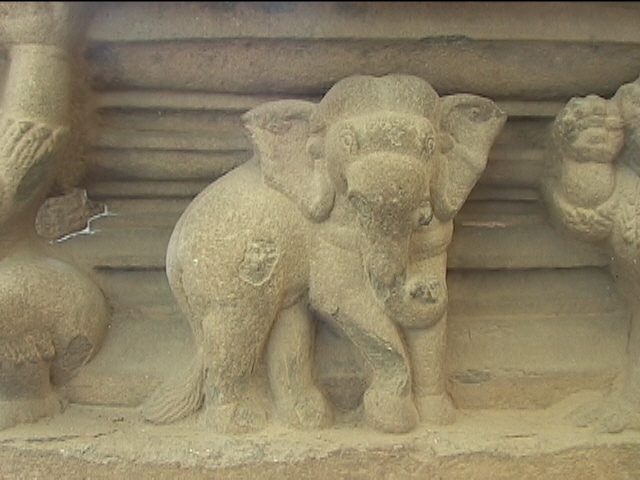 I made this photo myself. I hereby release it into the public domain. It depicts a work of 10th century ham art: a relief carving in the My Son A style depicting an elephant.